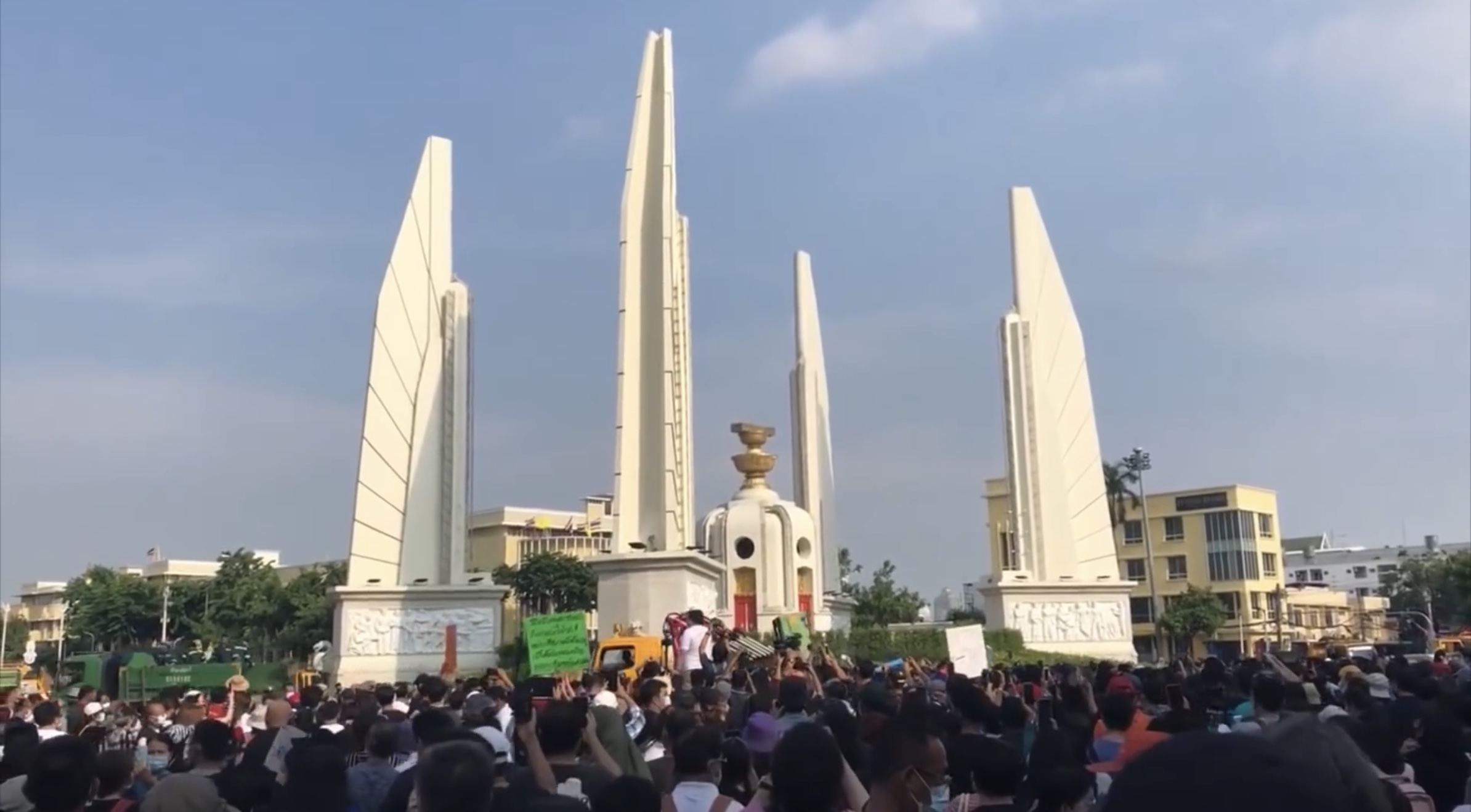 Protest in Bangkok July 18, 2020